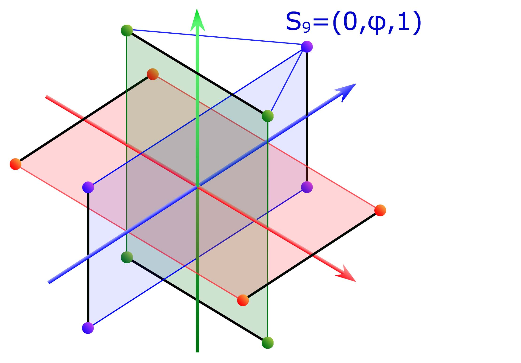 Computation of the 12 vertices's coordonnates. Step 3